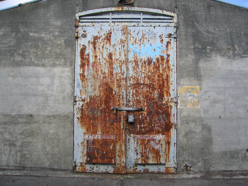 Bunker Entrance at Magnuson Park